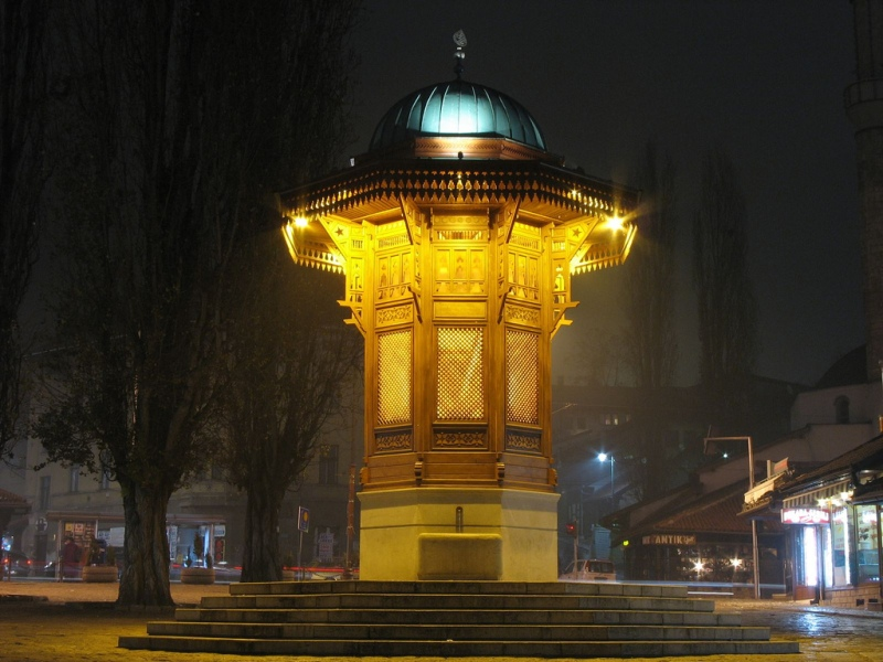 Bascarsija is Turkish quarter in Sarajevo built during the Ottoman empire.